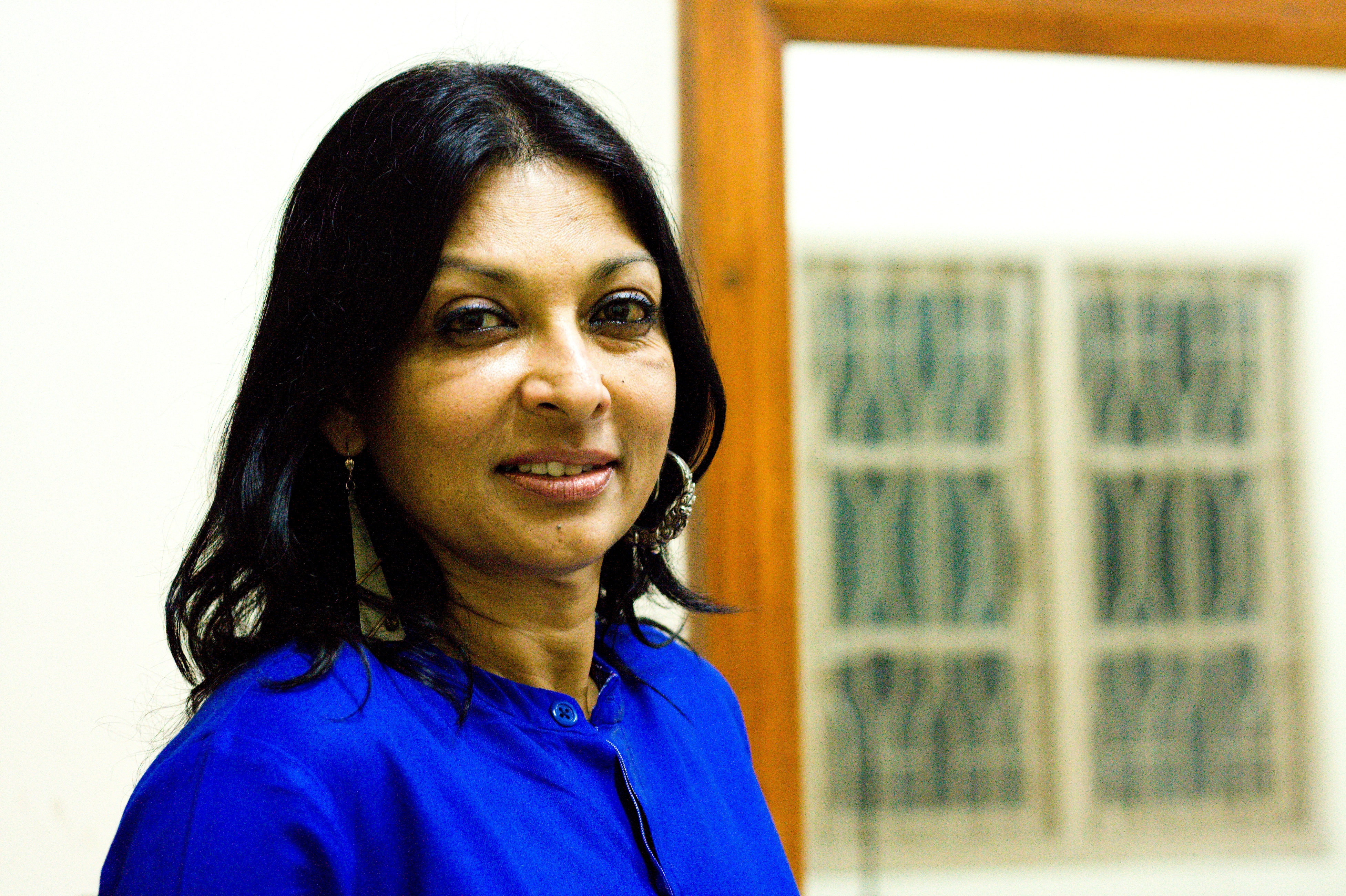 Mallika Sarabhai before her inaugural performance during Saarang 2011 at Indian Institute of Technology Madras